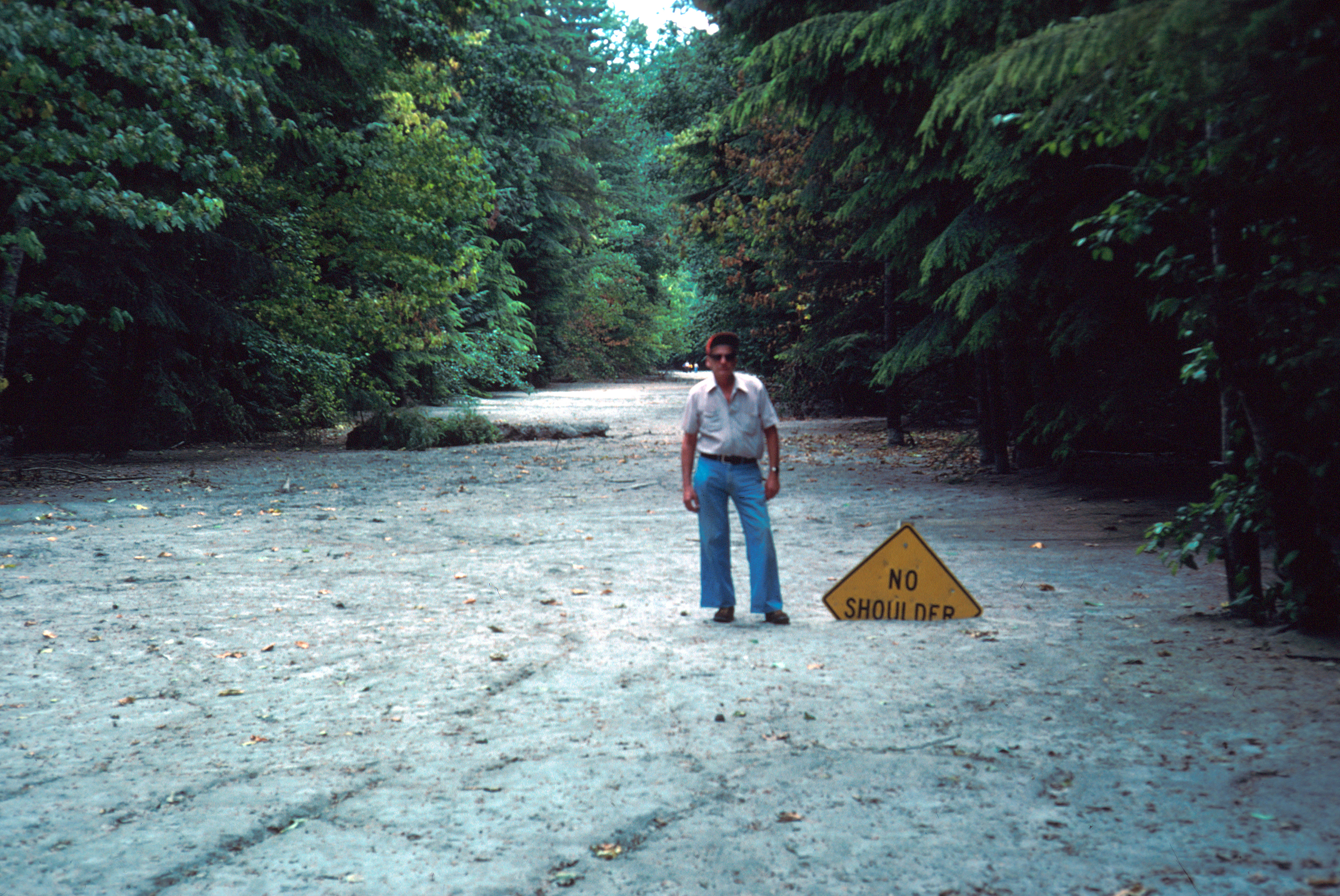 Sedimentary deposits from the lahar of Mount St. Helens's May 1980 eruption, seen covering State Route 504 a few months later. USGS employee Gordon Coyier is seen posing next to a buried highway sign.